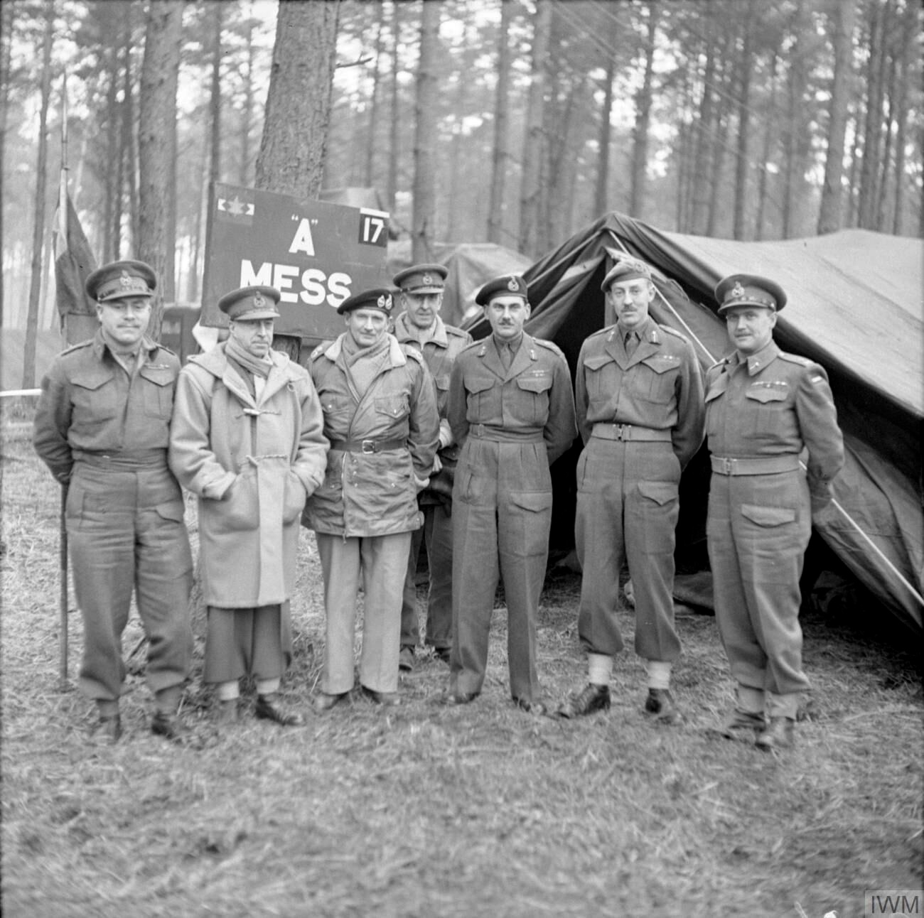 MONTGOMERY VISITS CANADIAN TROOPS IN THE KLEVE - GOCH SECTOR, GERMANY, FEBRUARY 1945 - Left to right: Major General C Vokes (4th Armoured Division), General H D C Crerar (Army Commander), Field Marshal Sir Bernard L Montgomery, Lieutenant General B G Horrocks (30 British Corps, Attached Canadian Army), Lieutenant General G C Simonds (2 Corps), Major General D C Spry (3rd Infantry Division), and Major General A B Mathews (2 Division).